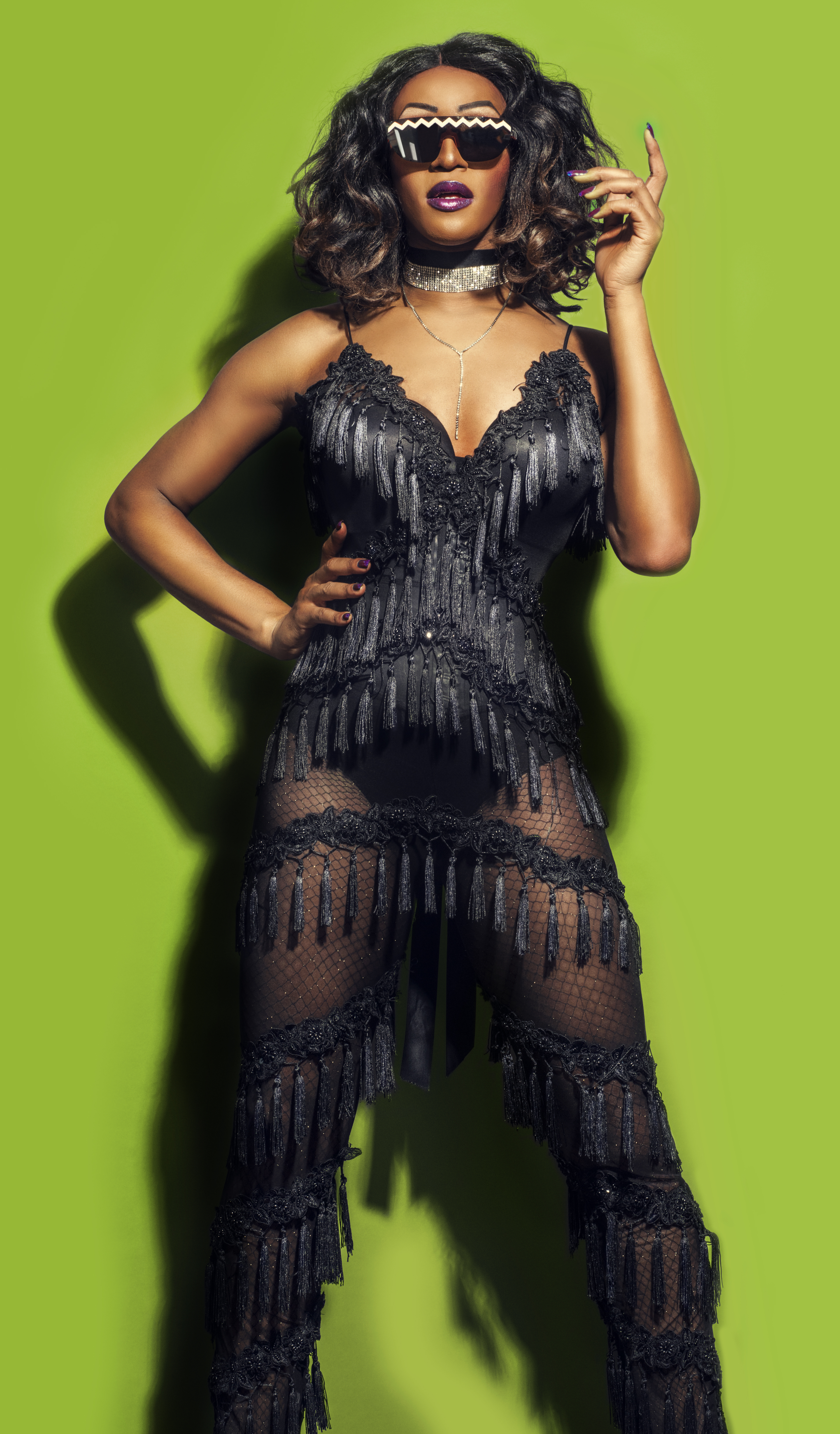 This photo is a portrait of drag queen Tynomi Banks, taken by Jamo Best Photography in Toronto, ON